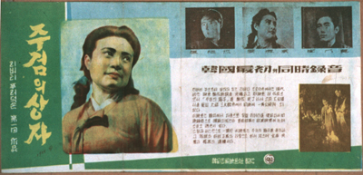 Movie poster for 1955 Korean movie Box of Death (주검의 상자 Jukeomiui sangja).